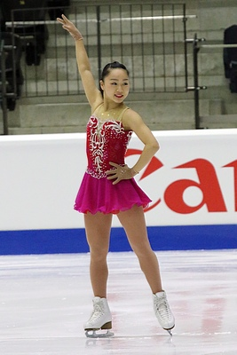 Junior World Championships 2015 (Wakaba HIGUCHI JPN – Bronze Medal)